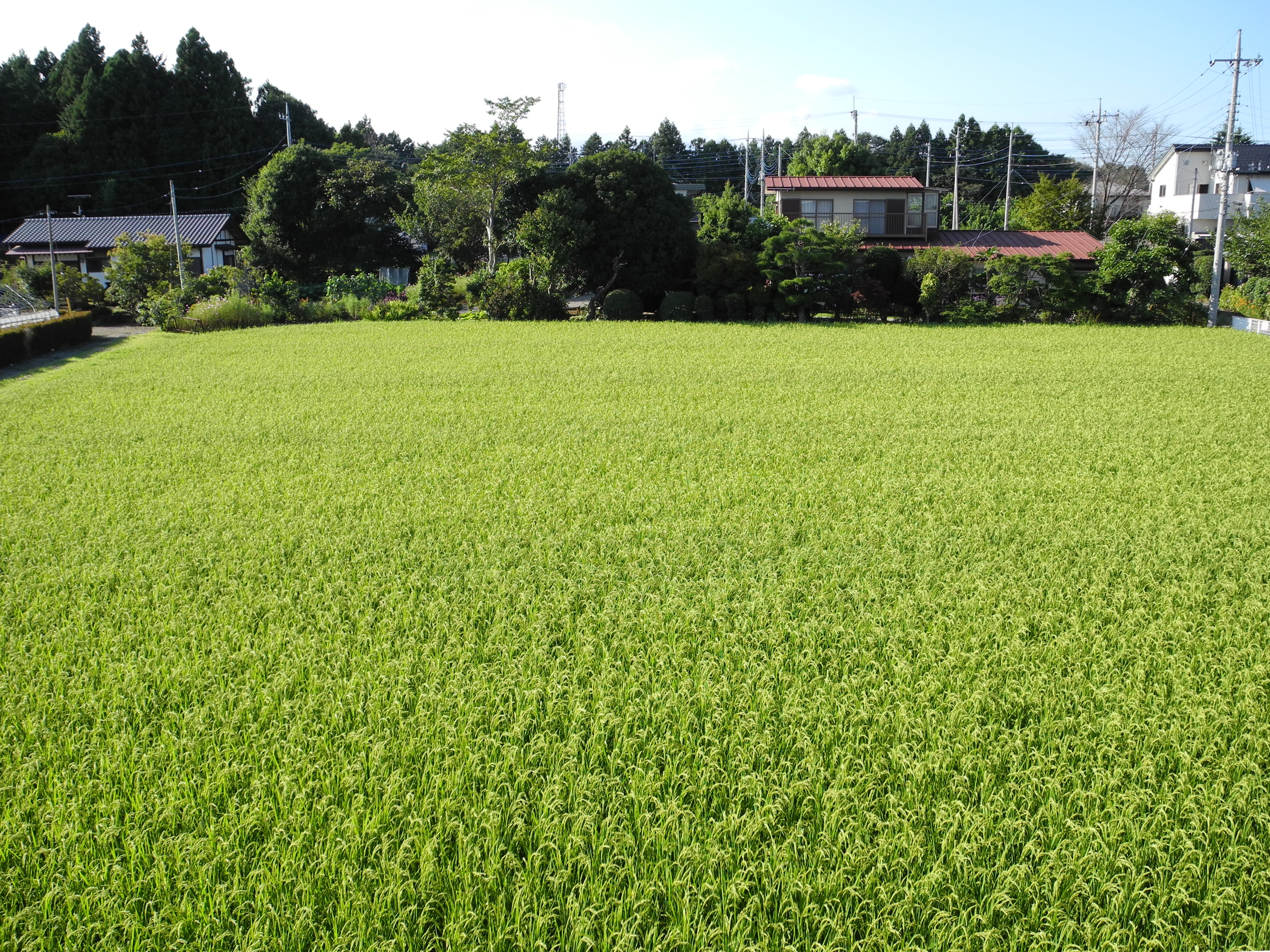 A yellow-green rice field in Nasushiobara.